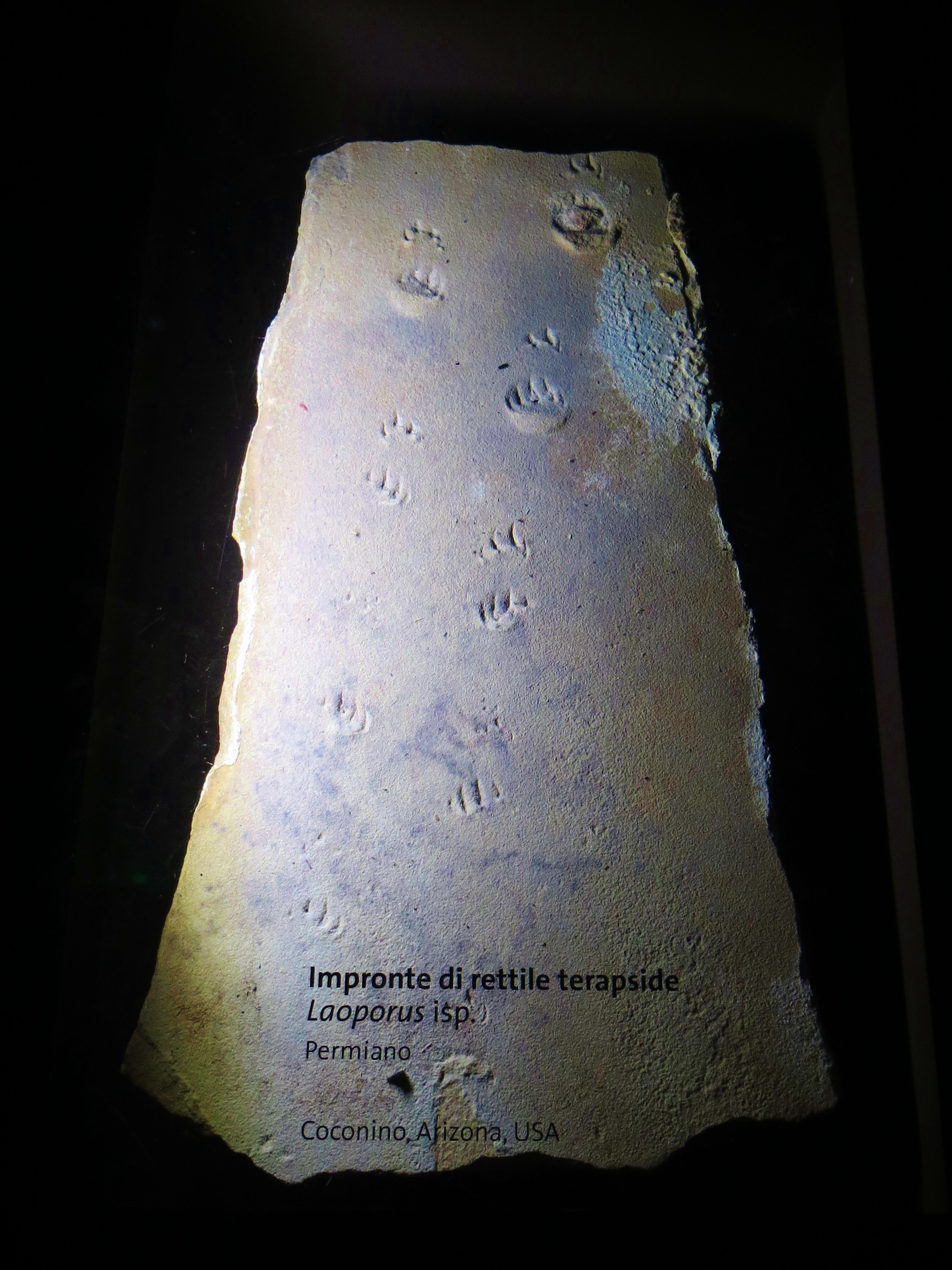 Laoporus, an extinct reptile ichnite. Took the photo at Museo di Storia Naturale di Venezia